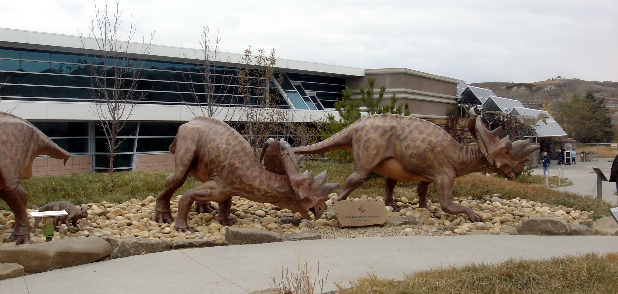 Pachyrhinosaurus lacustai models, Royal Tyrrell Museum, Alberta, canadaEntrance of the museum